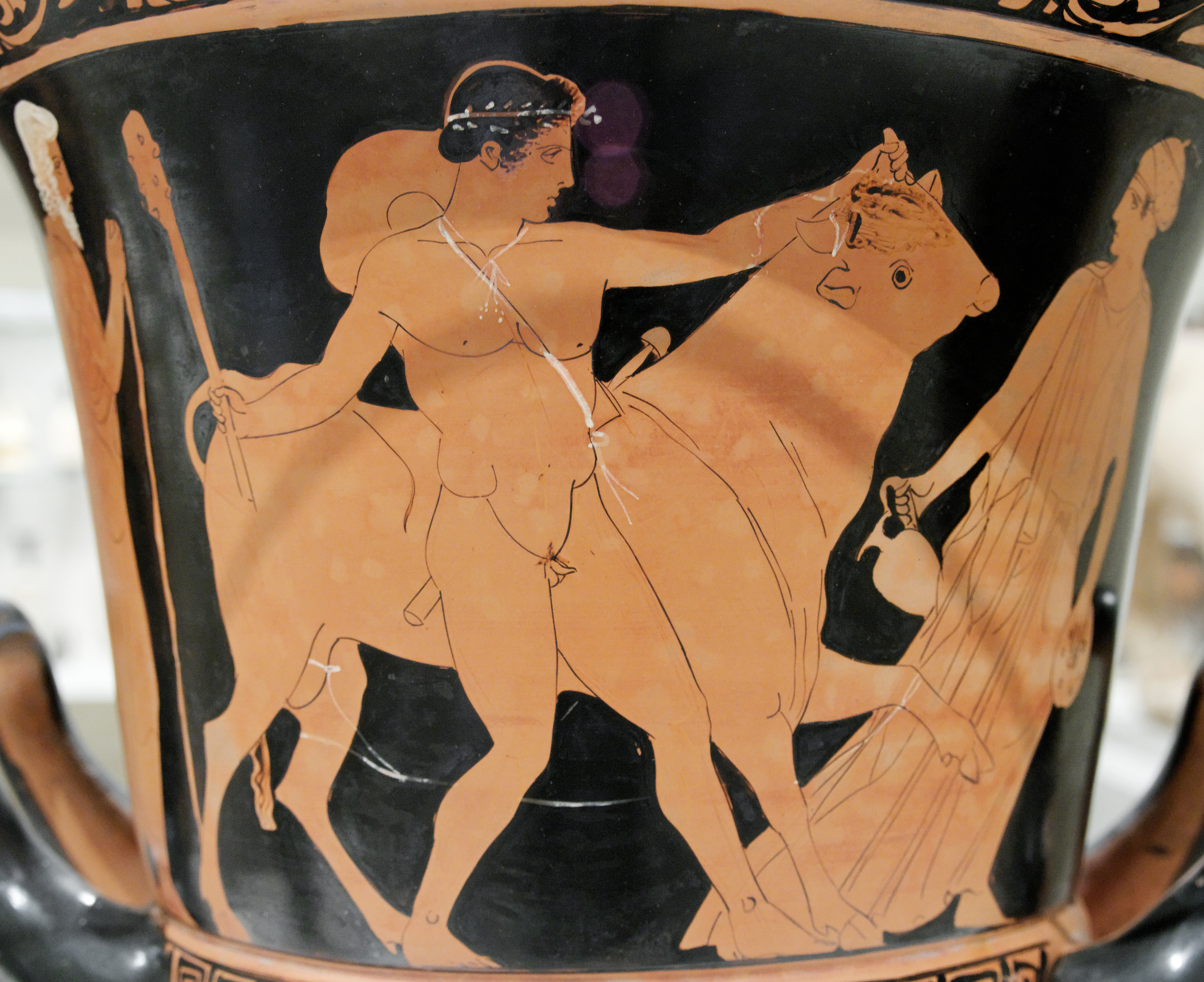 Theseus and the bull of Marathon. Side A of an Attic red-figure calyx-krater with twisted handles.